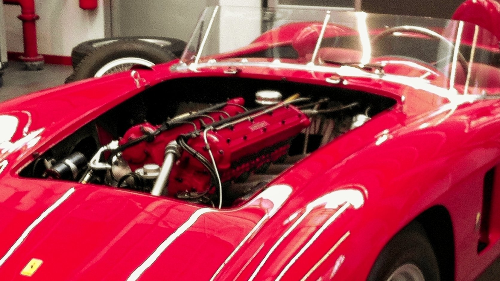 1957 Ferrari 500 TRC, exposed at FamilyDay 2013 in Ferrari Factory, Maranello (MO), Italy, in 15 June 2013.